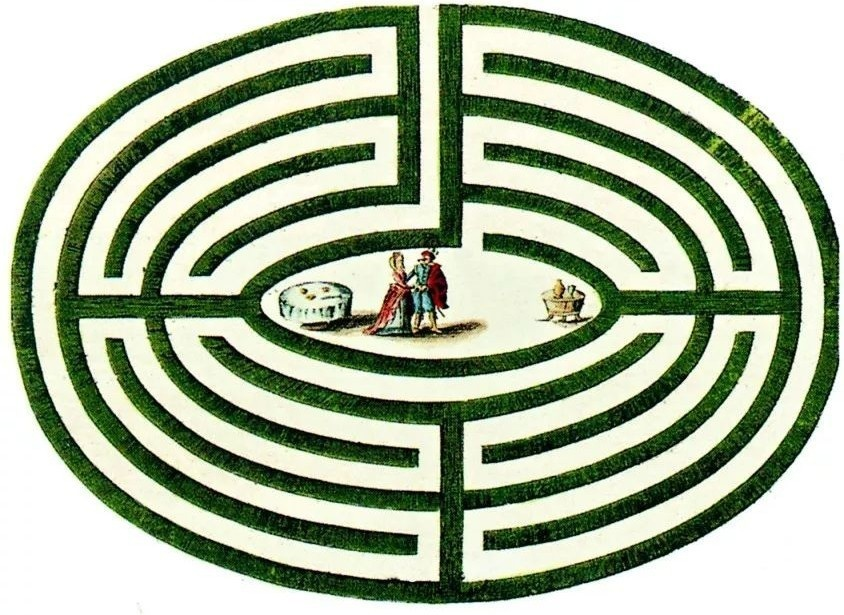 Labyrinth garden pattern with two figures and tables in the centre, indicating the garden is a ‘theatre of romance’. Detail from La Nouvelle Maison rustique, Paris, 1735.